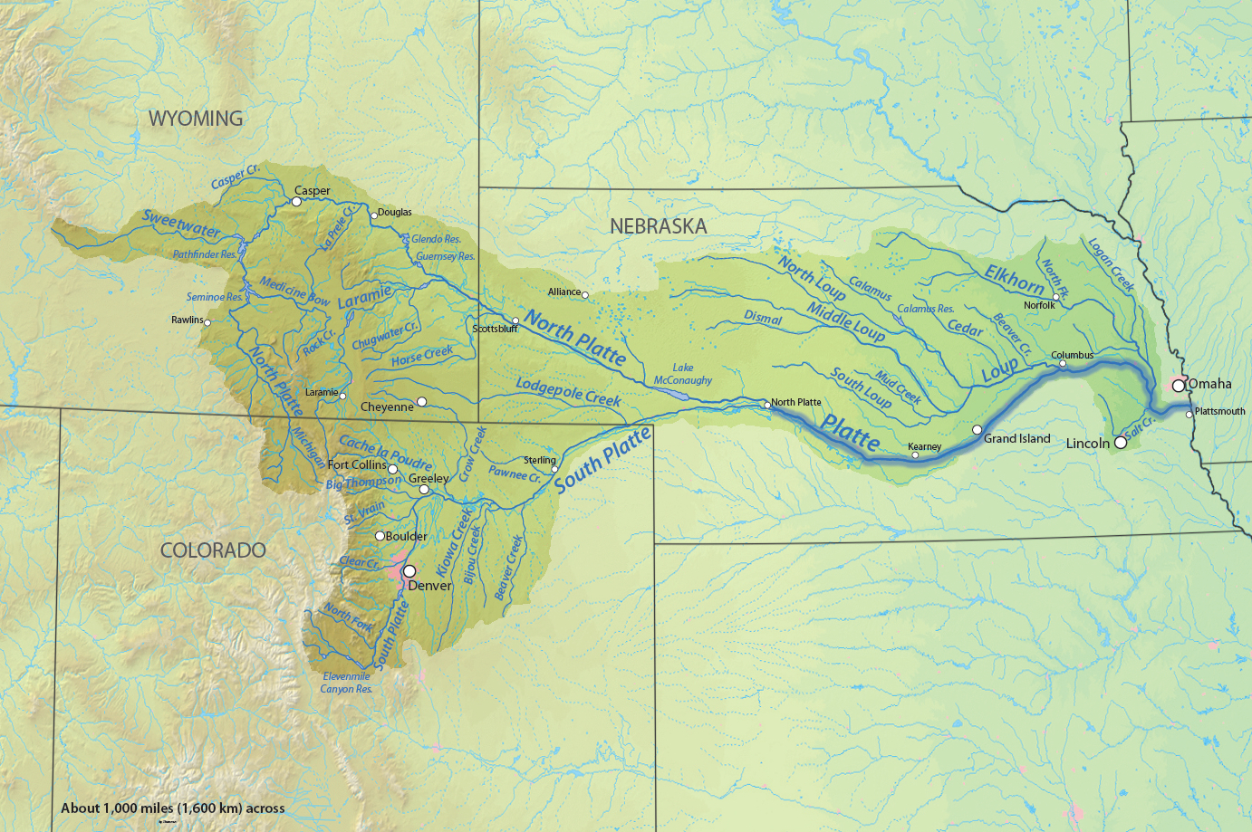 see my previous upload, i used the wrong file